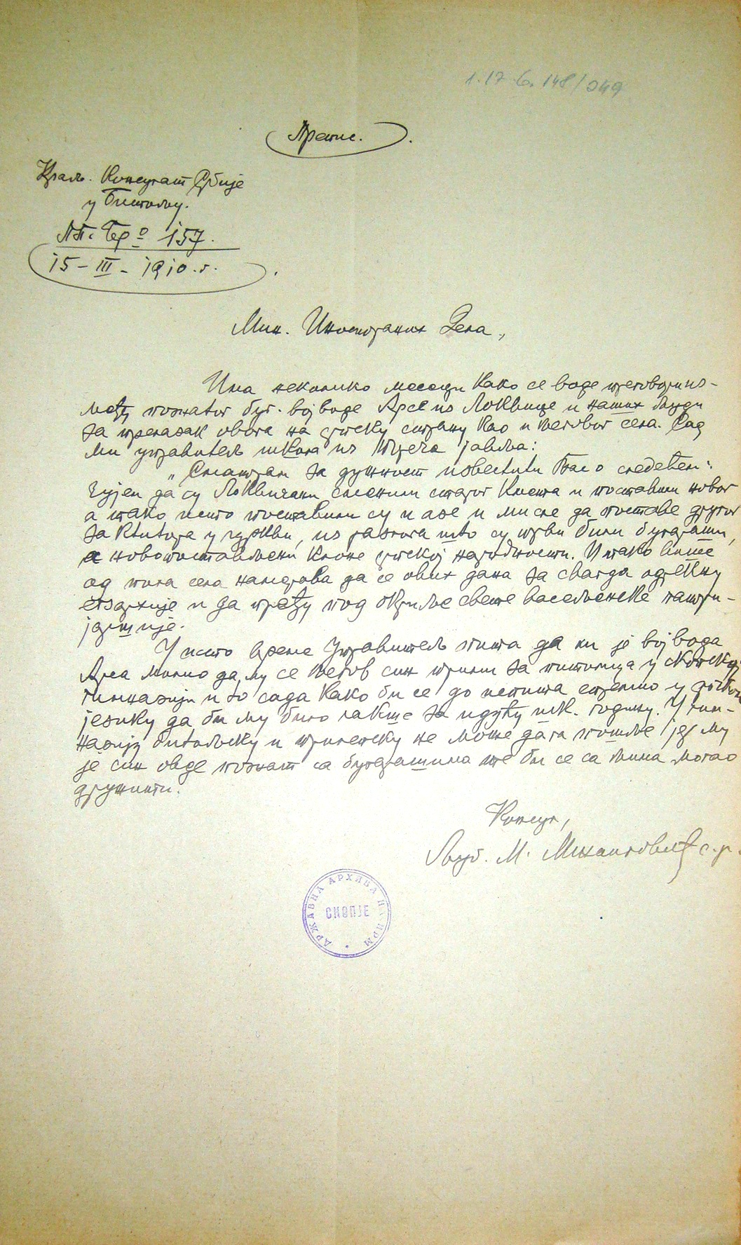 Information about the famous vojvoda Arso from Lokvica who asked to pass on the Serbian side. As a counterpart Arso is asking for his son to enroll in Skopje gymnasium. (Bitola, March 15, 1910) This media file is produced by Wikipedian in Residence in Category:Wikipedian in Residence at DARM in 2016.